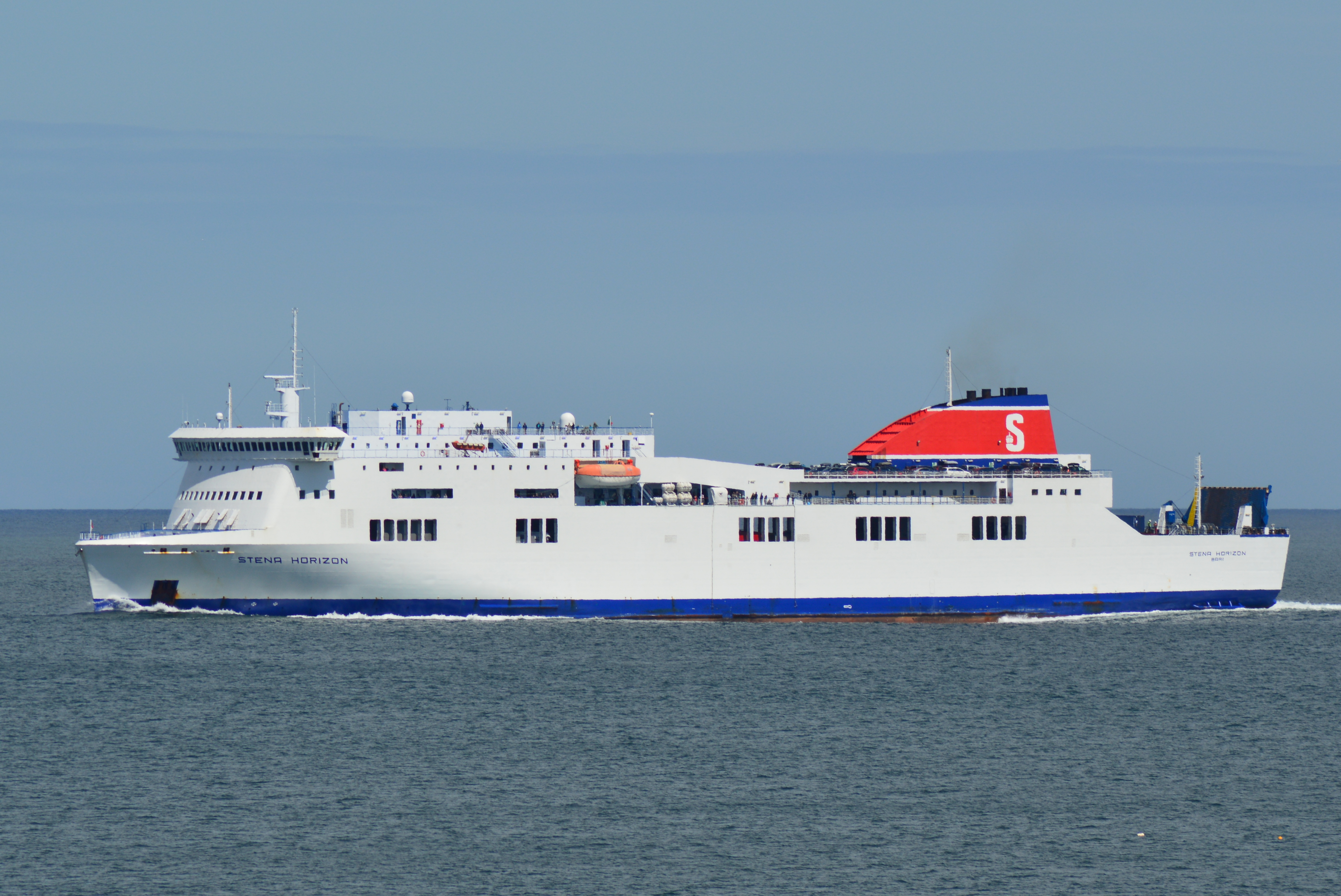 Stena Horizon approaching Rosslare Harbour